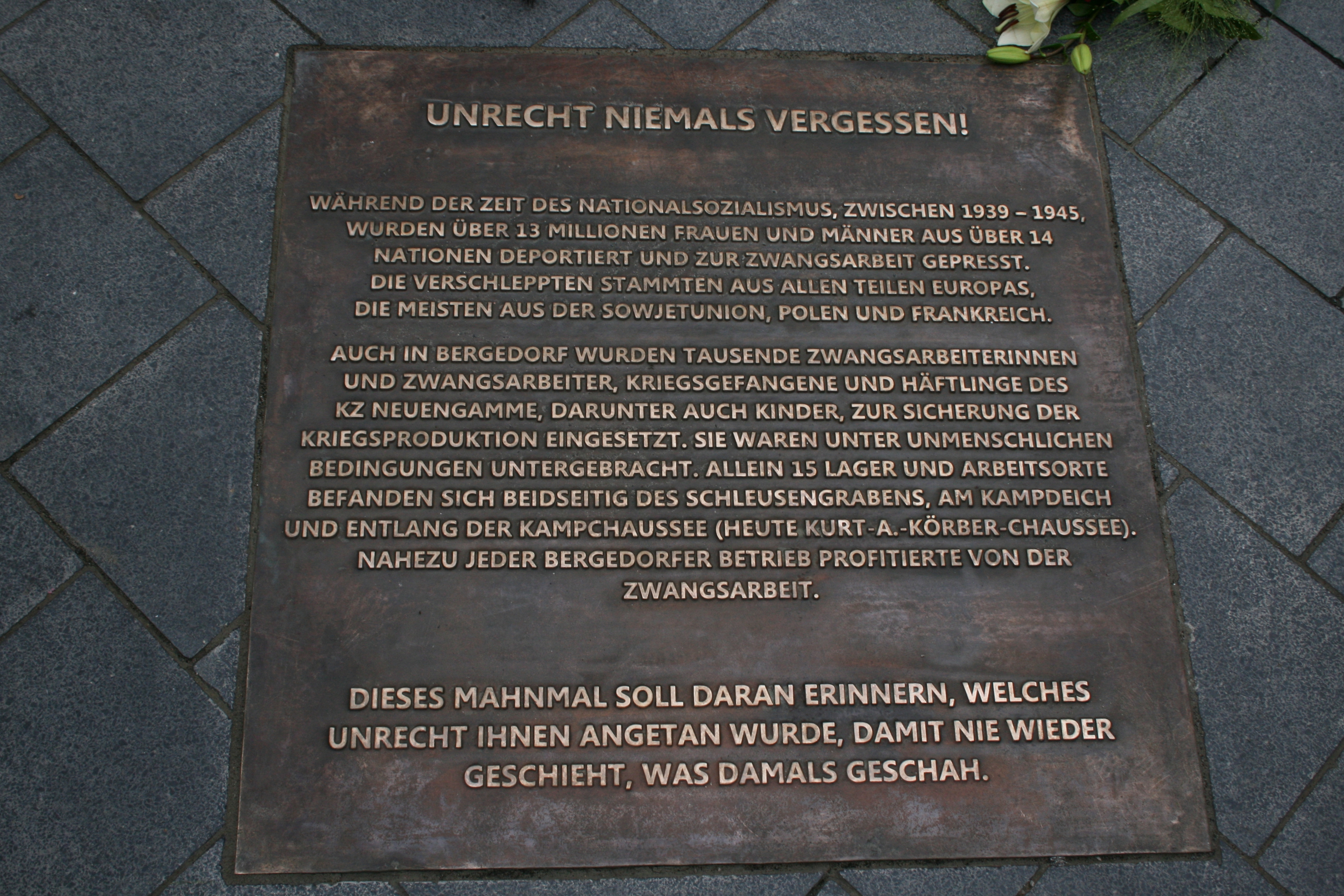 The memorial for the Forced labour under German rule during World War II in Hamburg-Bergedorf, memorial plate